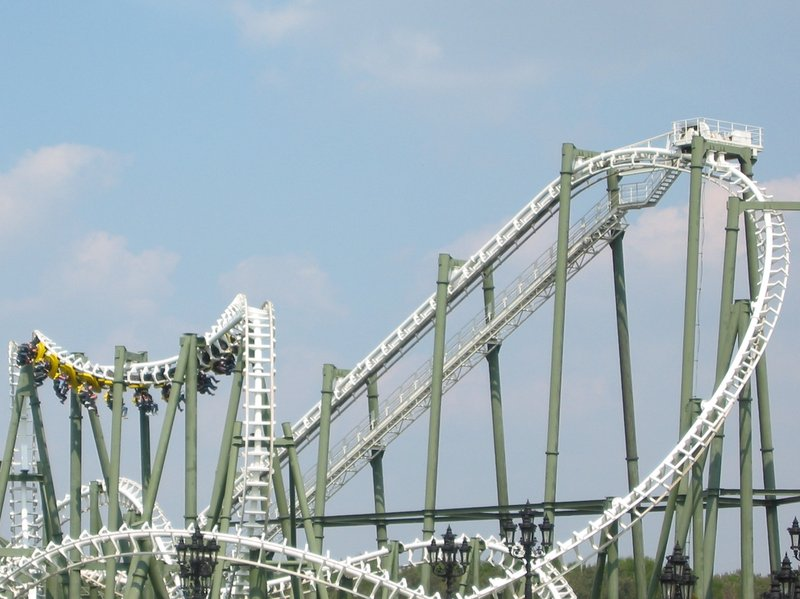 The Vekoma roller coaster Limit in the german Heide-Park